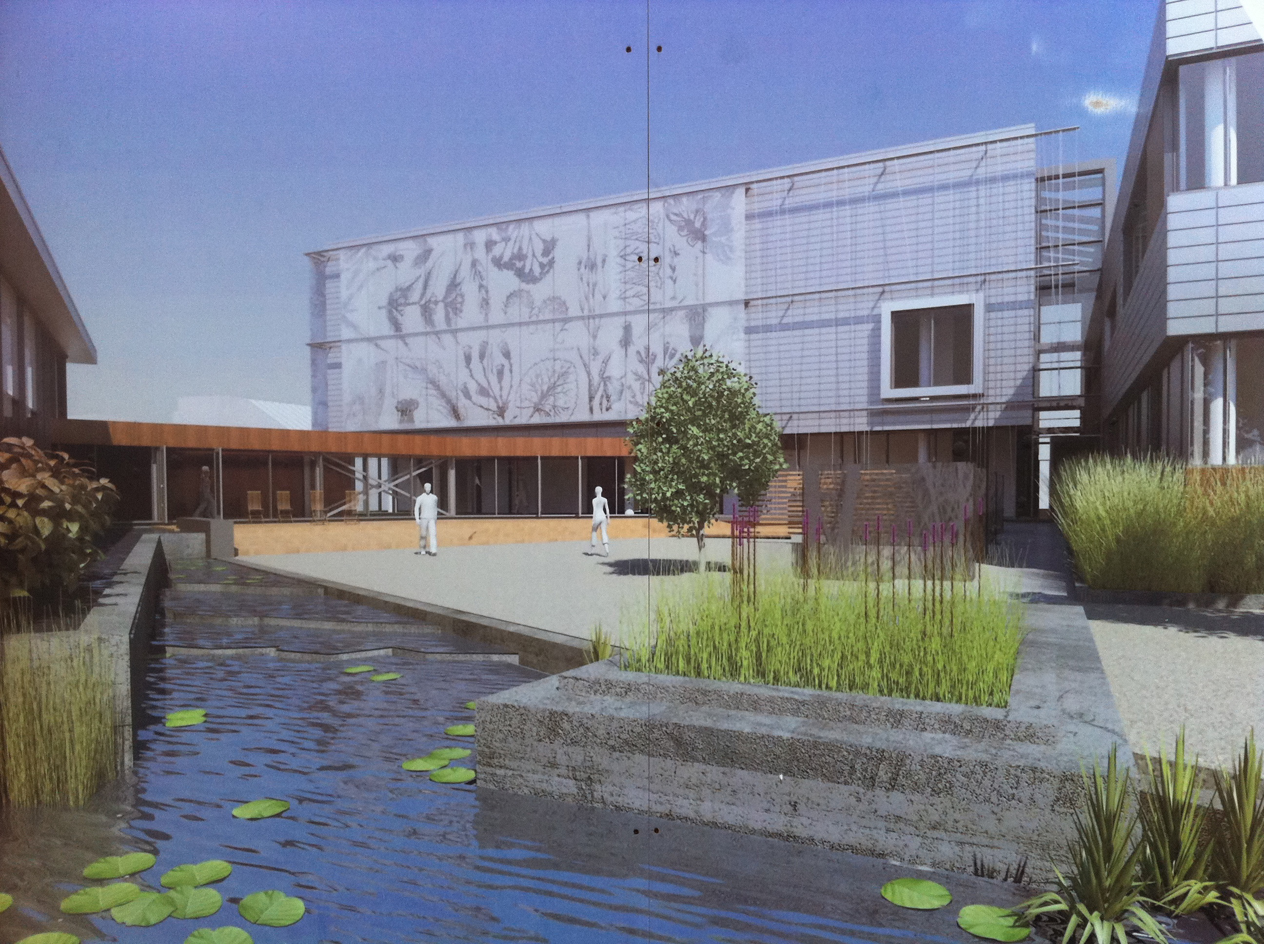 Model of the Centre on biodiversity of the Université de Montréal.